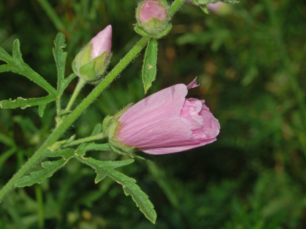 Malva alcea - Arquata S., Alessandria, Italy